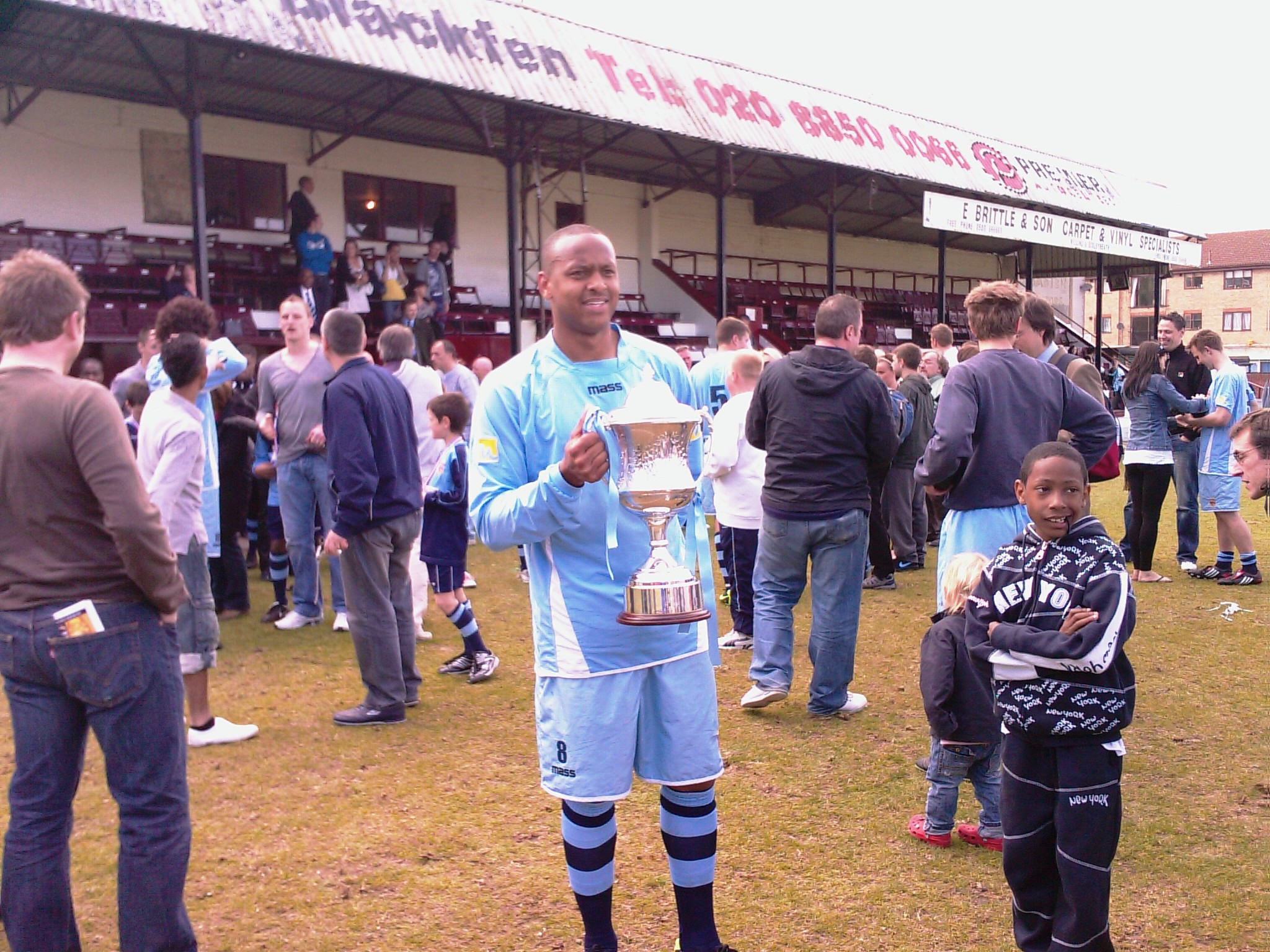 Croydon Lift the Kent LEague Cup in 2009